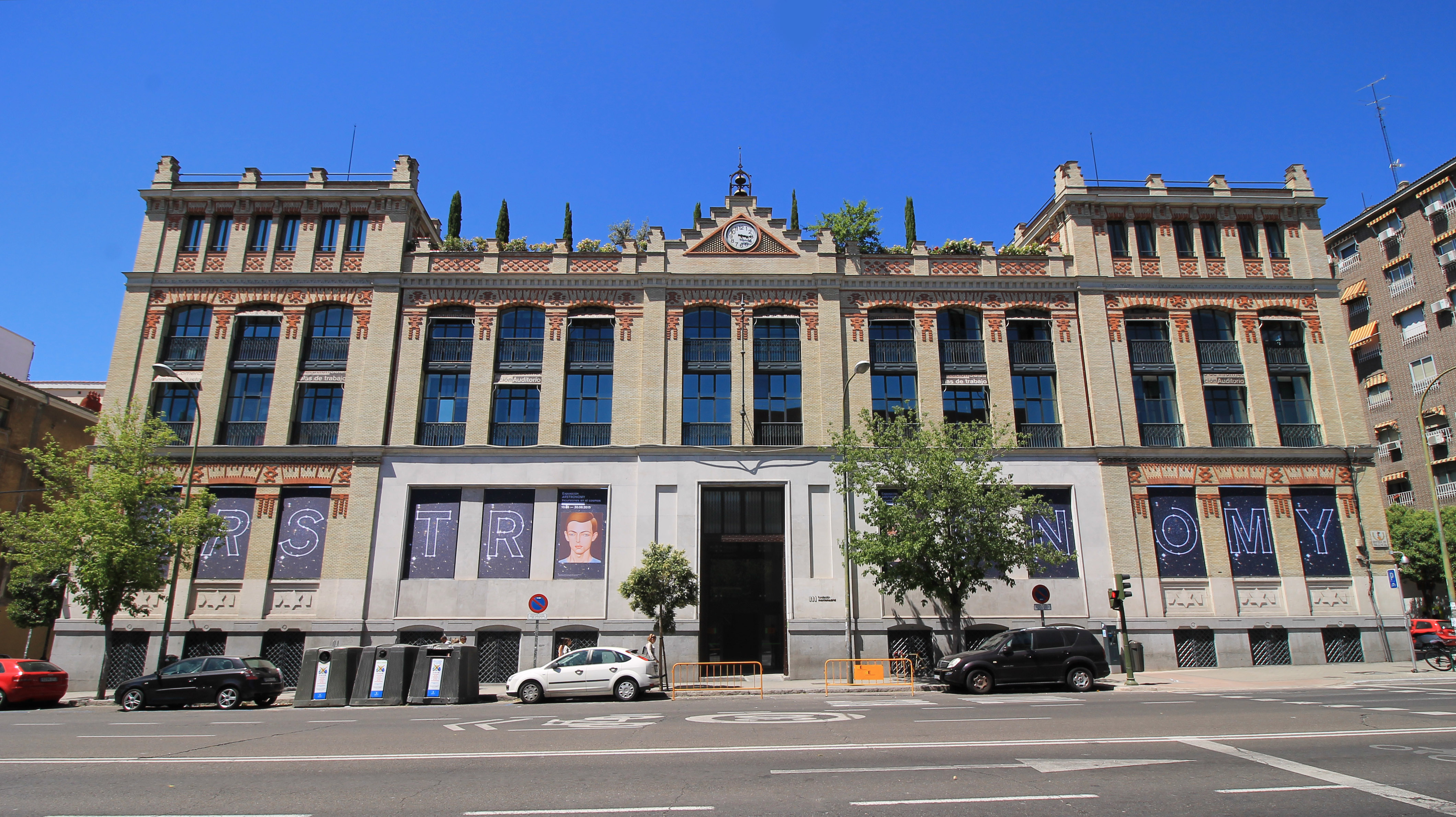 South-east façade of La Casa Encendida ("The Enlighted House") in Madrid (Spain).